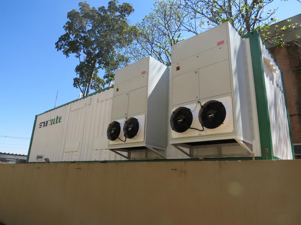 SmartCube Modular Data Center